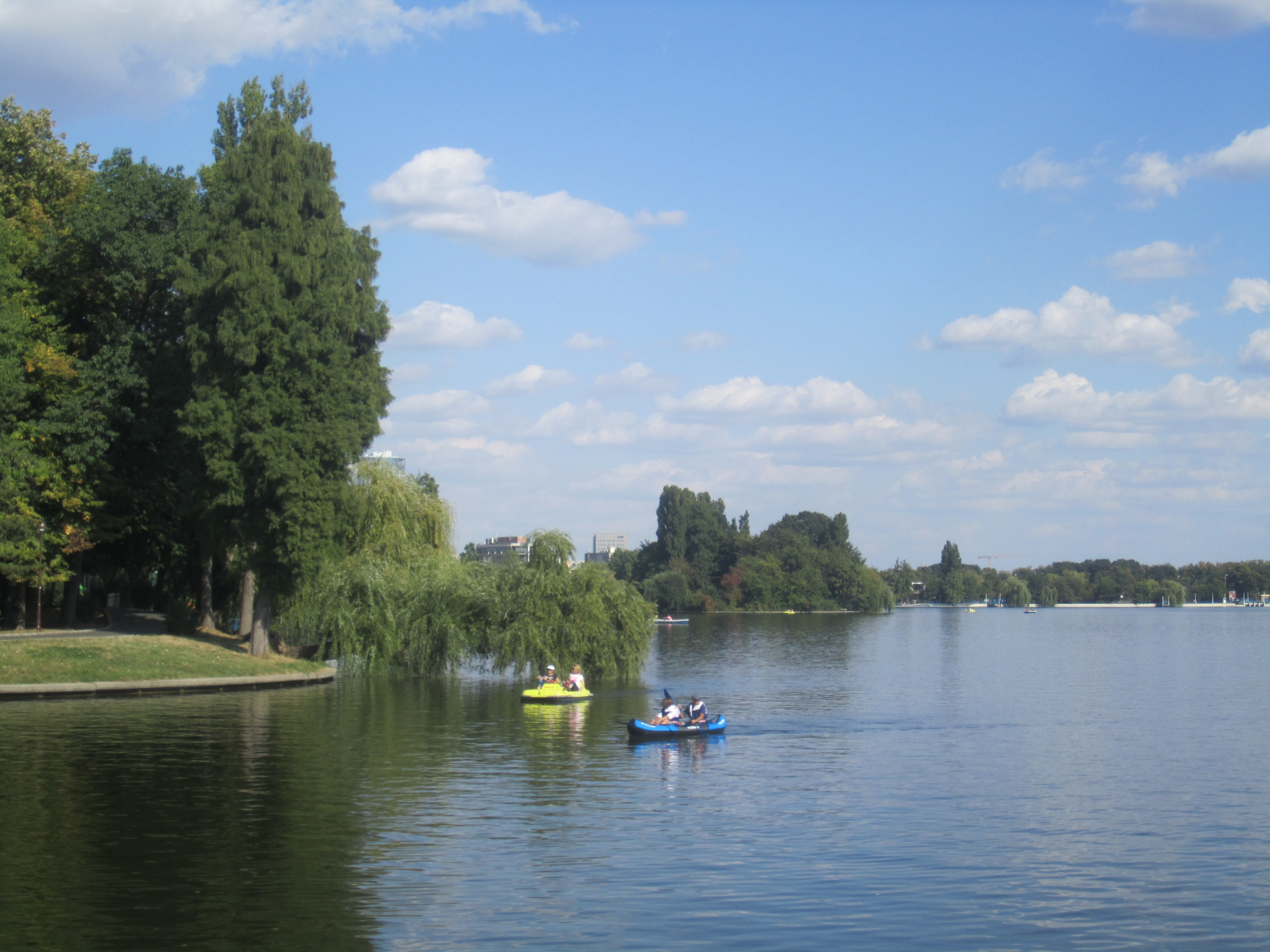 Herastrau park lake - Bucharest RomaniaRomână: Parcul lacul Herastrau - Bucuresti Romania